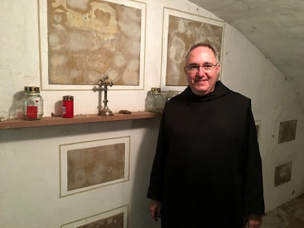 Ambrosius Leidinger in the crypt of the Benedictine abbey Neuburg near Heidelberg